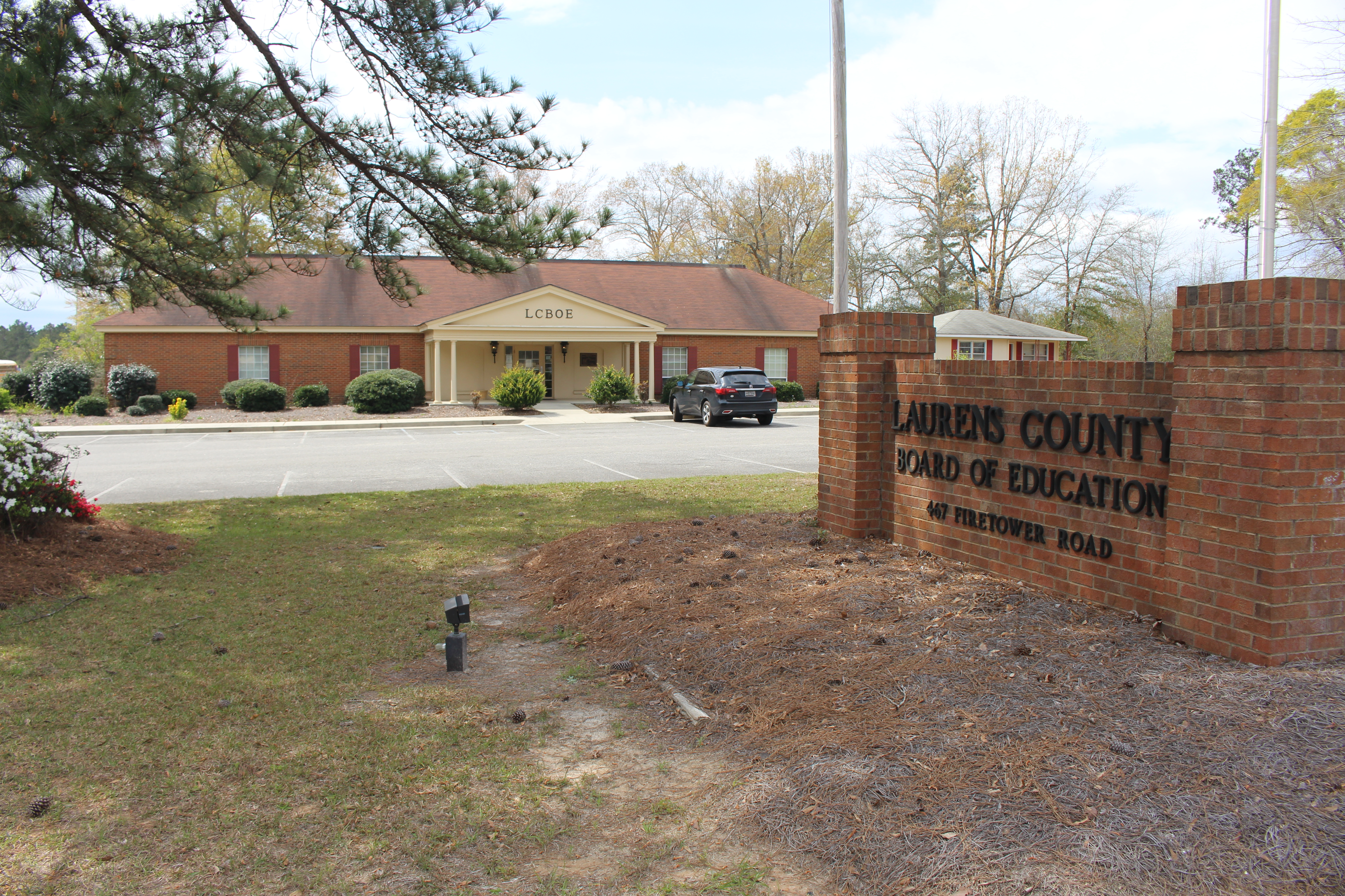 Laurens County Board of Education, Dublin, Laurens County, Georgia